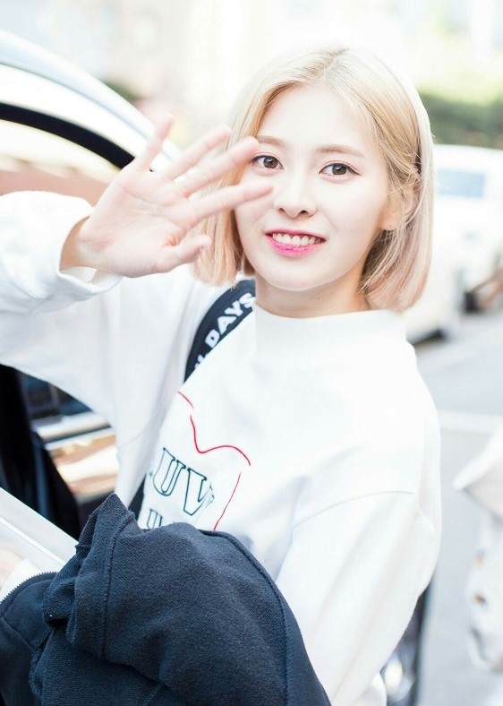 Yebin